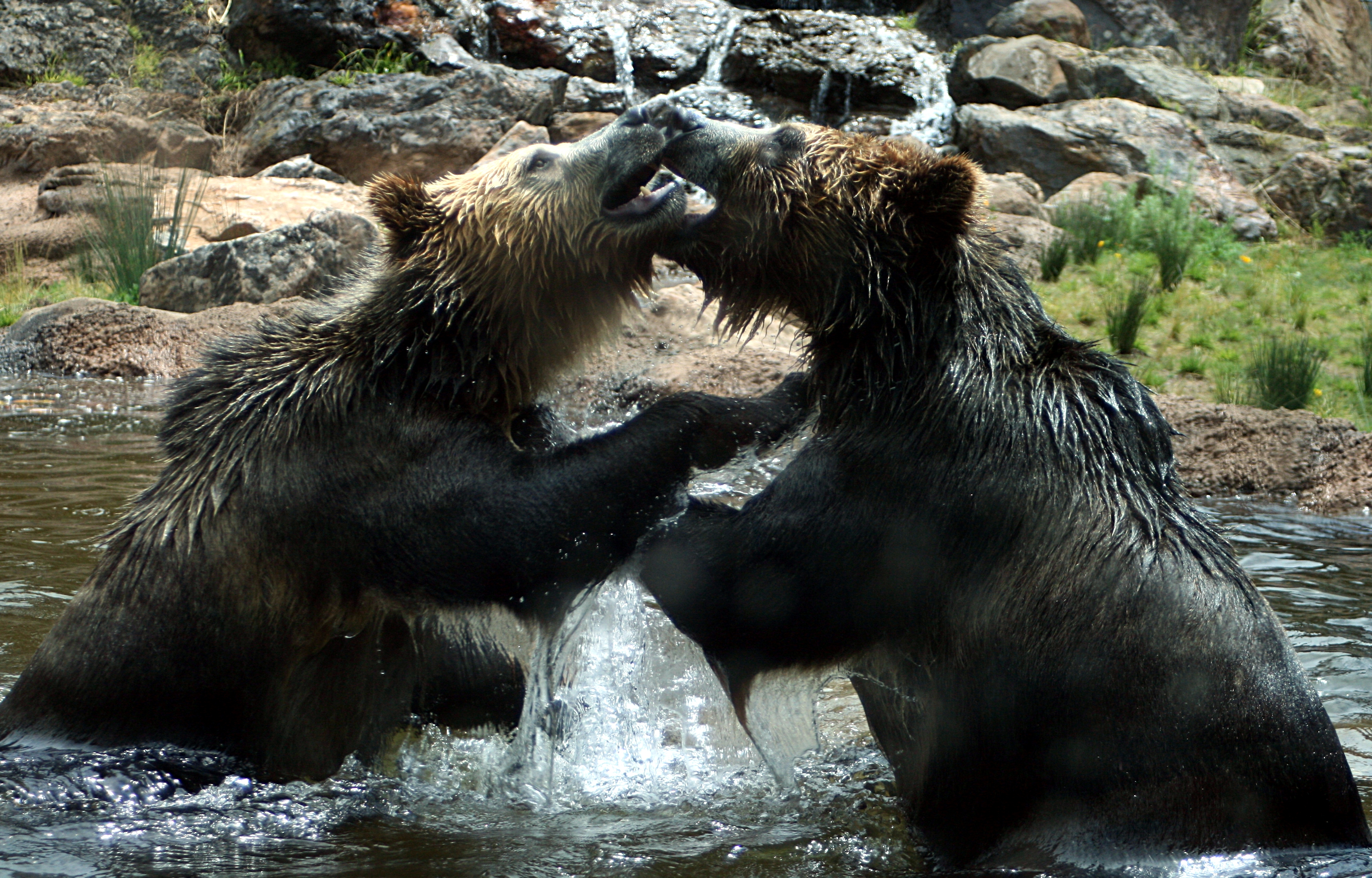 Grizzly Bears (Ursus arctos horribilis) are making out. The picture was taken in San Francisco ZOO.